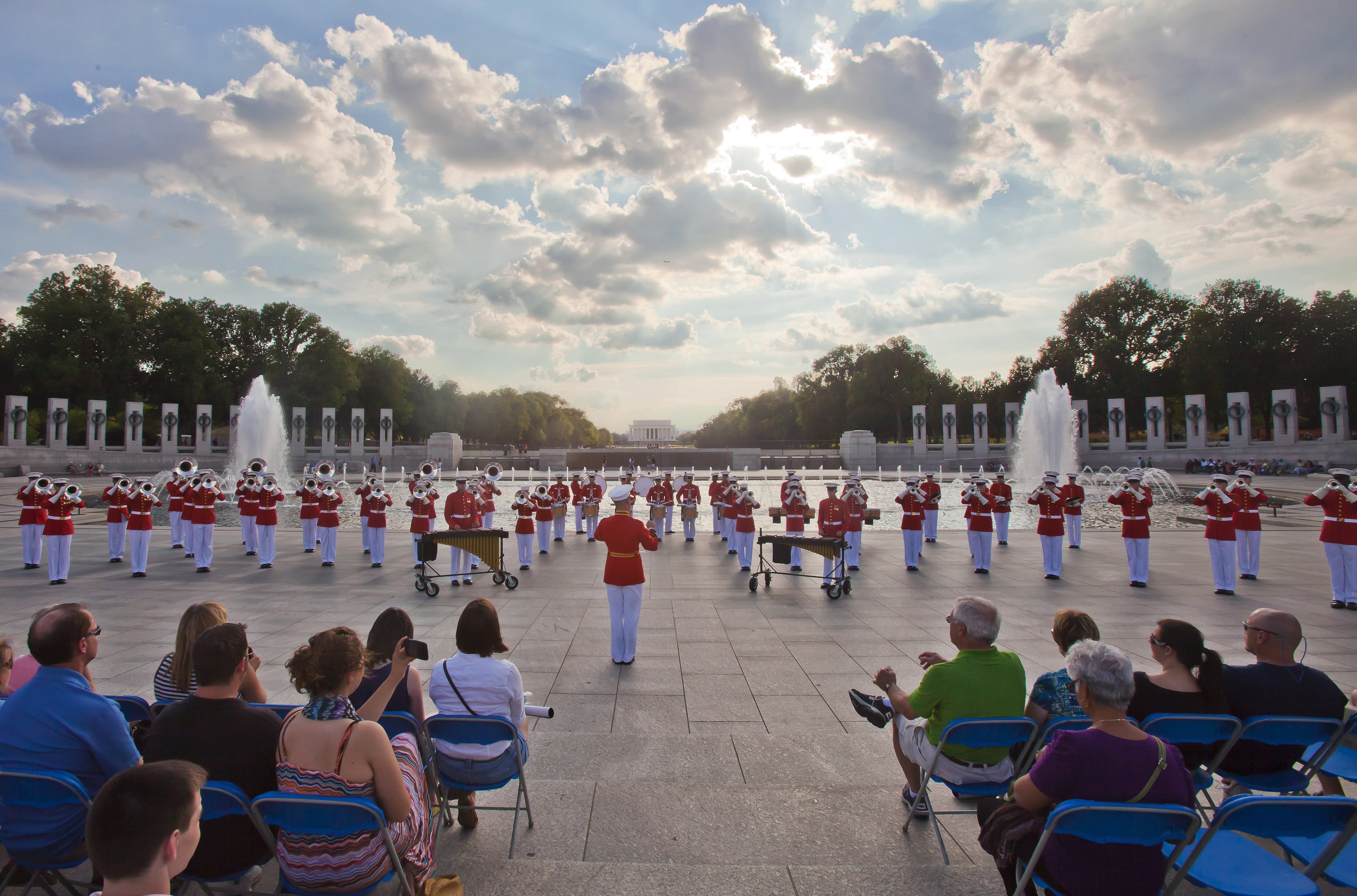 The U.S. Marine Drum & Bugle Corps performs during the inaugural performance of the Friends of the National War World II Memorial 2012 Concert Series at the World War II Memorial in Washington June 14. The free concert coincided with National Flag Day and the U.S. Army 237th birthday. The D&B closed its concert by playing "Armed Forces Salute," a medley of each branch of service song. (U.S. Marine Corps photo by Cpl. Dangrier Baez)